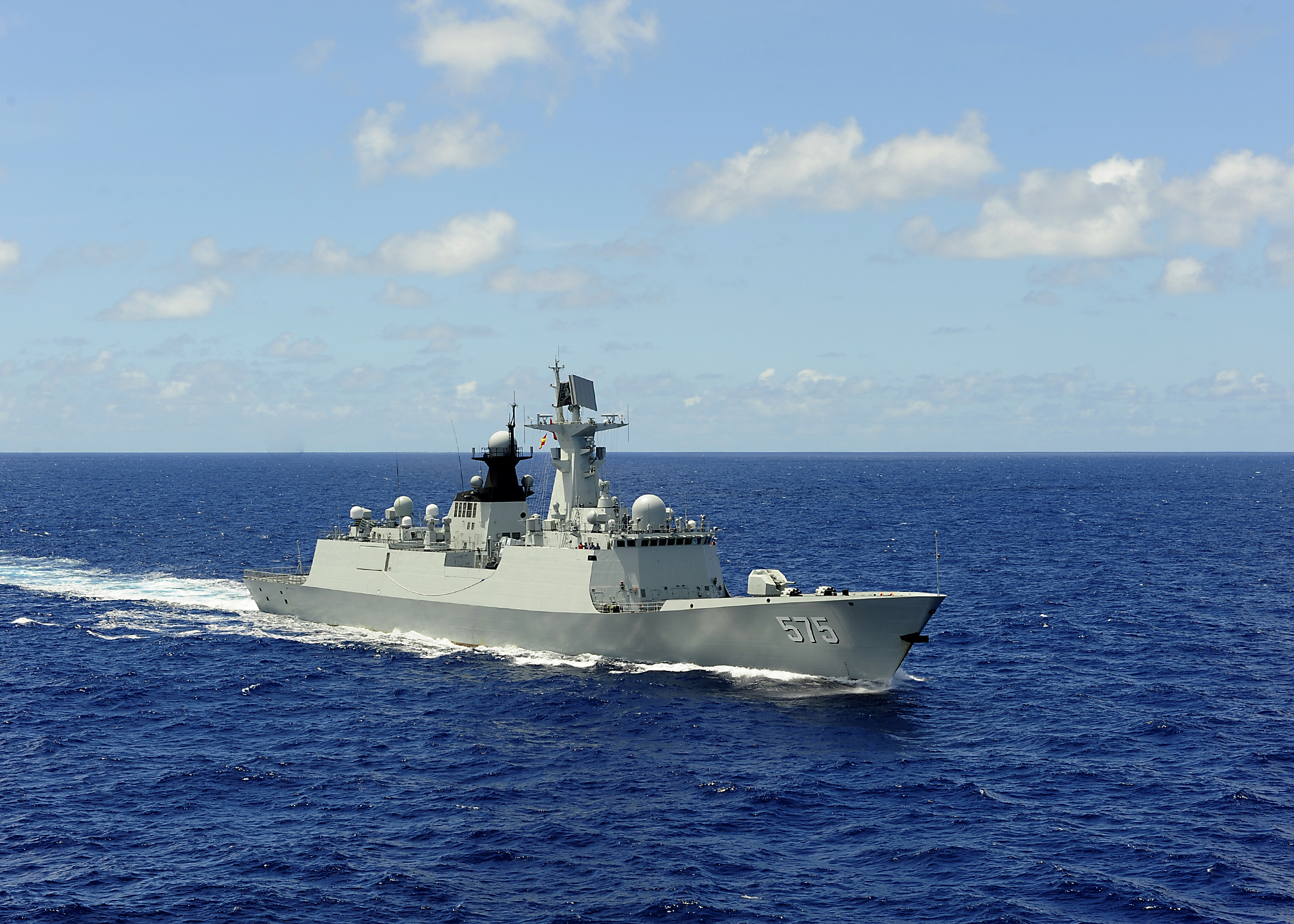 People's Republic of China, People's Liberation Army (Navy) ship Yueyang (FF 575) participates in a replenishment-at-sea (RAS) training during Rim of the Pacific (RIMPAC) Exercise 2014.